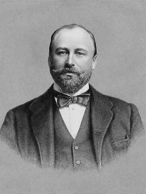 Mr Harry Mccalmont Sportsman Antique Portrait 1895